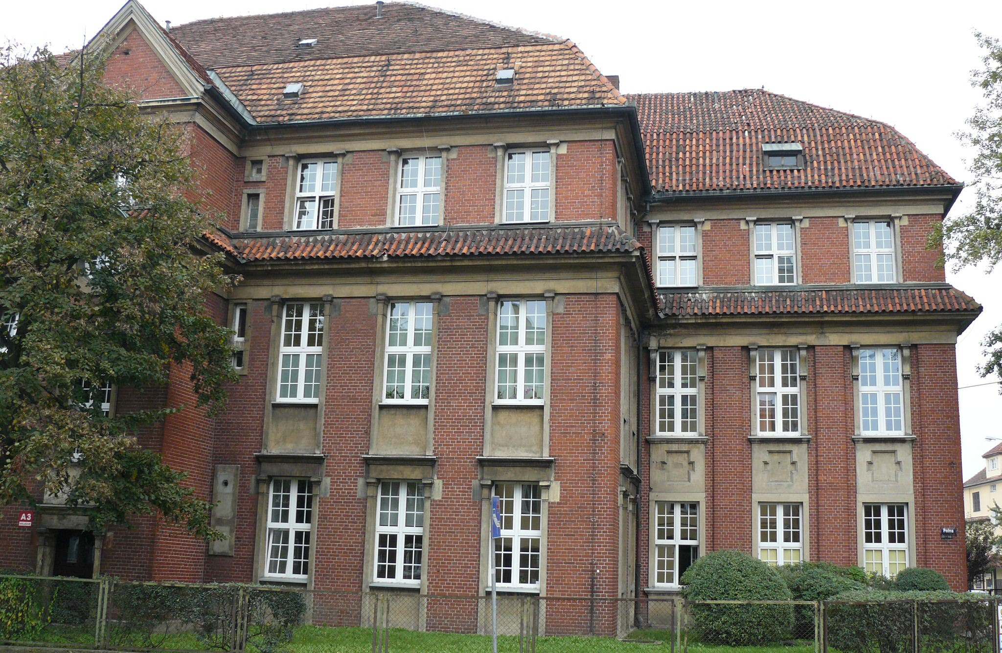 Polna Street Hospital, Poznan.